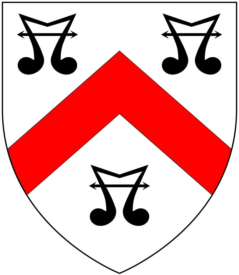 Arms of Yard of Bradley in the parish of King's Teignton, Devon: Argent, a chevron gules between three water bougets sable (Vivian, Lt.Col. J.L., (Ed.) The Visitations of the County of Devon: Comprising the Heralds' Visitations of 1531, 1564 & 1620, Exeter, 1895, p.829). These were originally the canting arms of the Bushel family of Bradley, whose heiress Elizonta Bushel married Roger Yard. The original arms of Yarde, also canting arms, were: A yard measure (Tregaskes, Jean H., Churston Story: 1088-1998, First Published 1990, Revised 2nd Edition 1998, p.14) of appearance unknown.